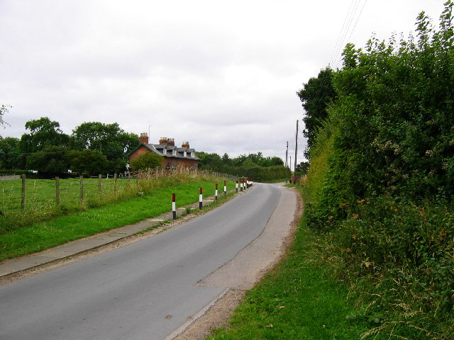 Rise, East Riding of Yorkshire, England.Rise is situated in the bottom south section of the grid square. Rise Hall straddles this and the adjacent square south. This square and the surrounding area is all farmland.